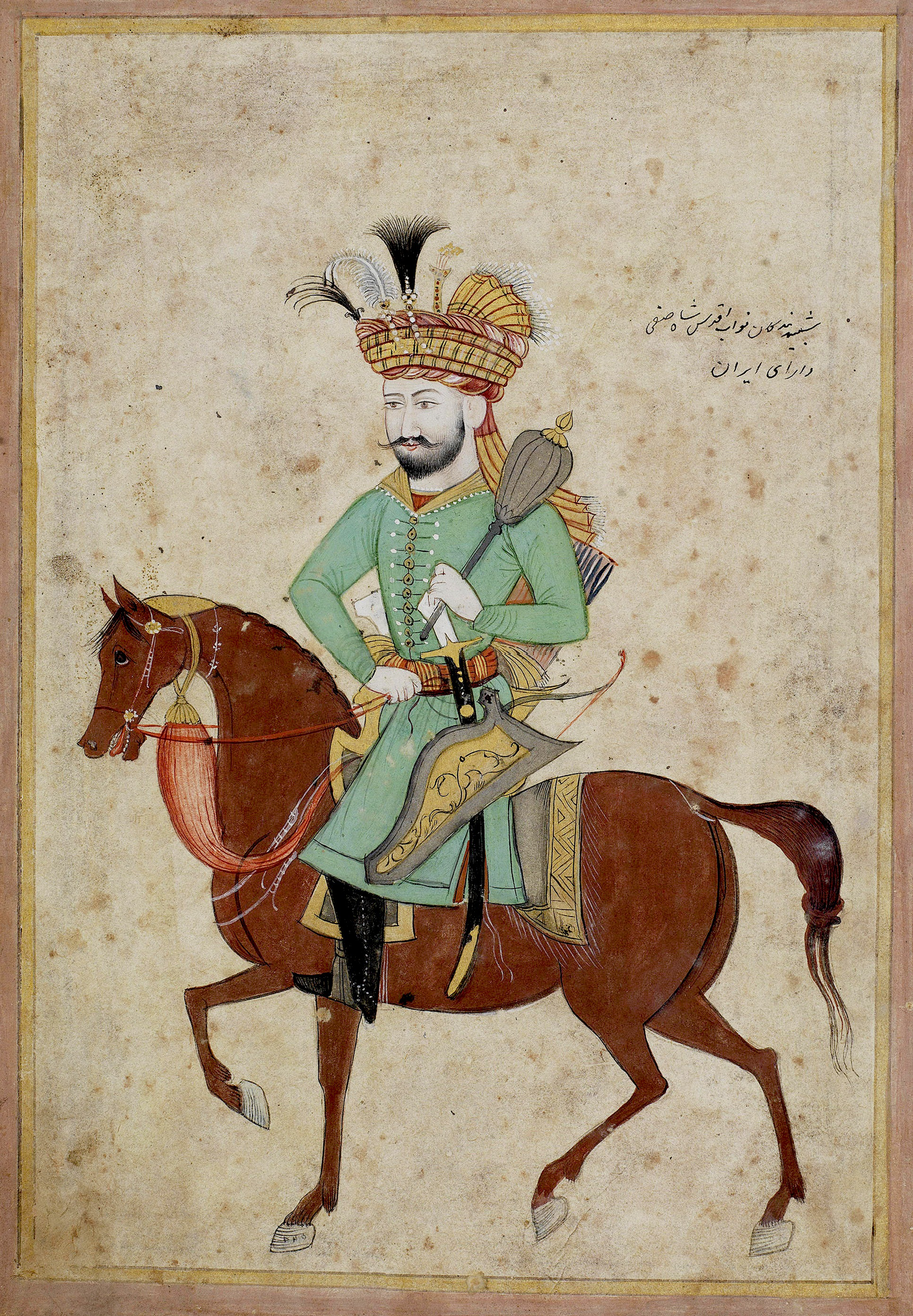 Shah Safi I of Persia on Horseback Carrying a Mace North India, 18th/19th Century gouache and gold on paper, gold and brown borders, inscribed in cursive script, inscribed verso Shaw Suffee, King of Persia The inscription reads: shabih-e bandagannavvab-e aqda shah safidara-ye iran, 'Portrait of His Majesty, the most pure Shah Safi King of Iran'.